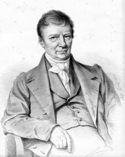 French cellist Louis Pierre Martin Norblin (1784-1851) by Julien Léopold Boilly (1796-1874).